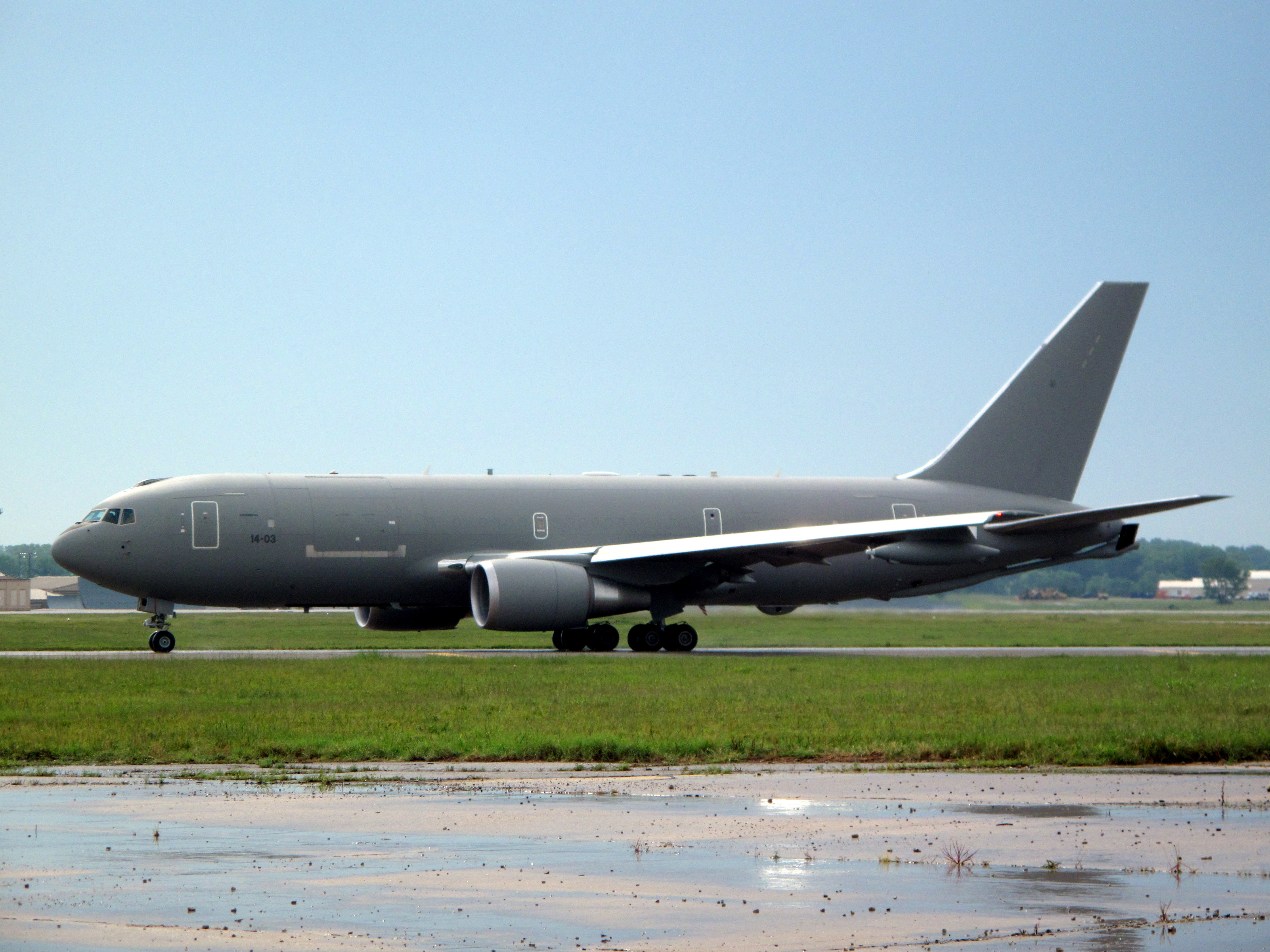 A KC-767 on the tarmac at McConnell AFB/Boeing Factory in Wichita, KS